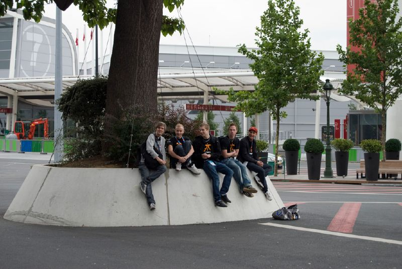 Swedish professional gamers from the Counter-Strike clan "fnatic" at Electronic Sports World Cup 2007 in Paris, France. The players at the picture are (from left) Harley "dsn" Örvall, Patrik "cArn" Sättermon, Patrik "f0rest" Lindberg, Oscar "Archi" Torgersen and Oskar "ins" Holm.